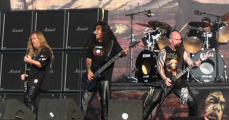 American band Slayer at the Fields of Rock festival, June 2007